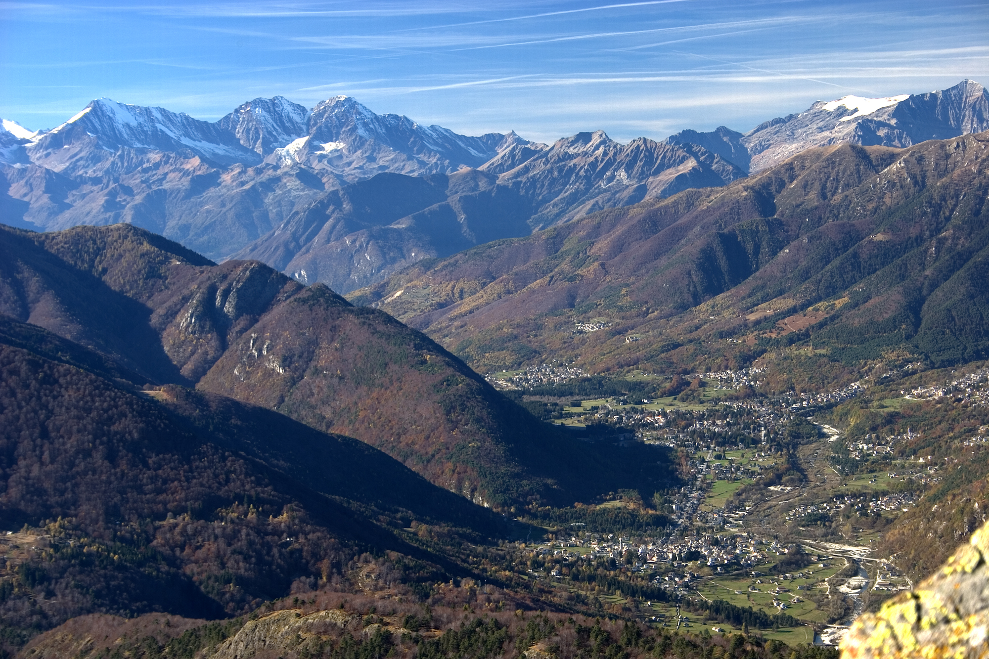 A panoramic view of Val Vigezzo taken at noon of a wonderful November day from the Torriggia Peak.